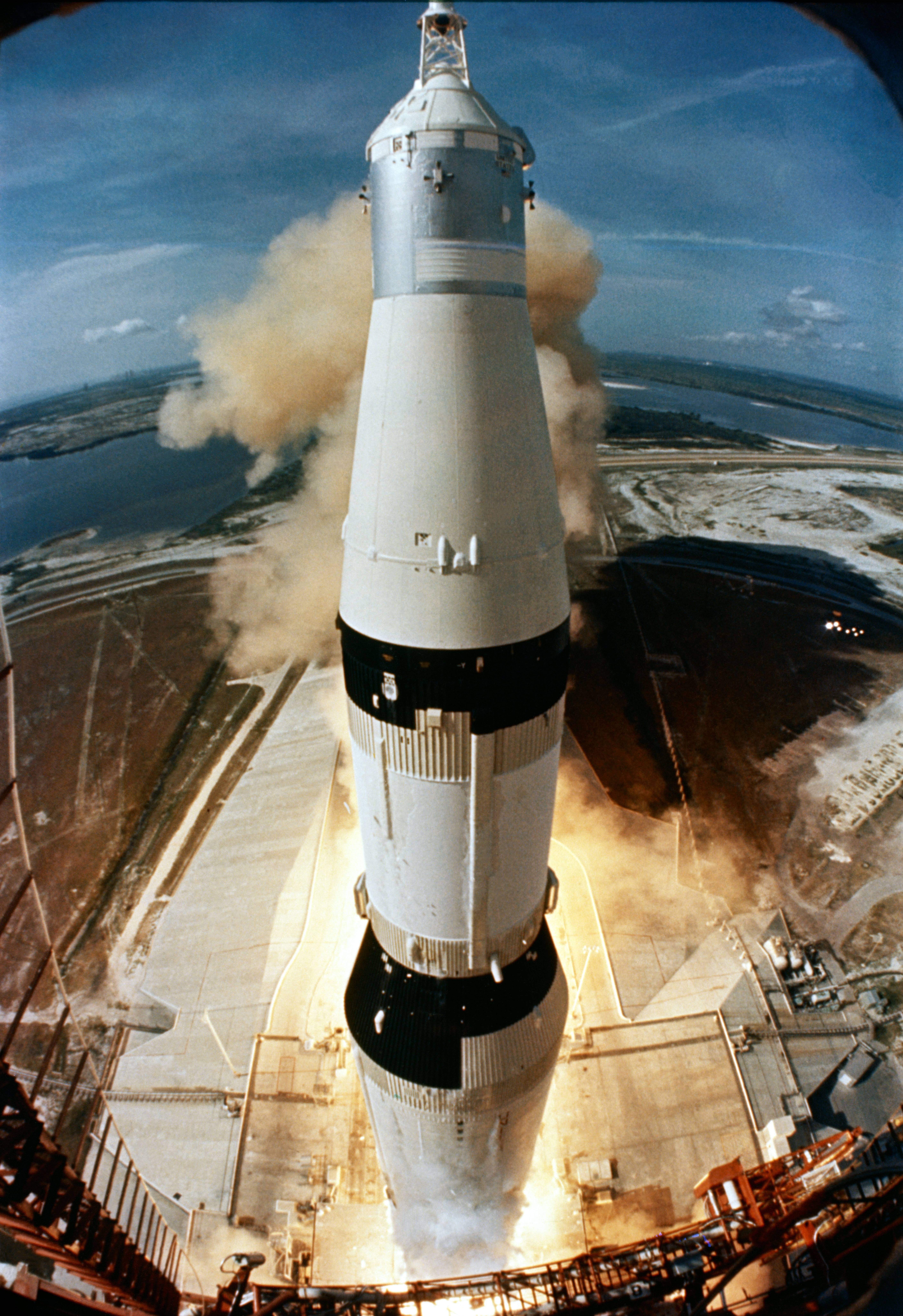 AS-506 lifts off from Launch Pad 39A at the Kennedy Space Center July 16, 1969. This sixth flight of the Saturn V launch vehicle, developed under the direction of the Marshall Space Flight Center, delivered astronauts Neil Armstrong, Edwin Buzz Aldrin, and Michael Collins to lunar orbit. Better known as Apollo 11, the mission marked the first manned lunar landing.